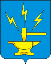 Dobryanka City in Perm Krai, Russia, new coat of arms, 2006.